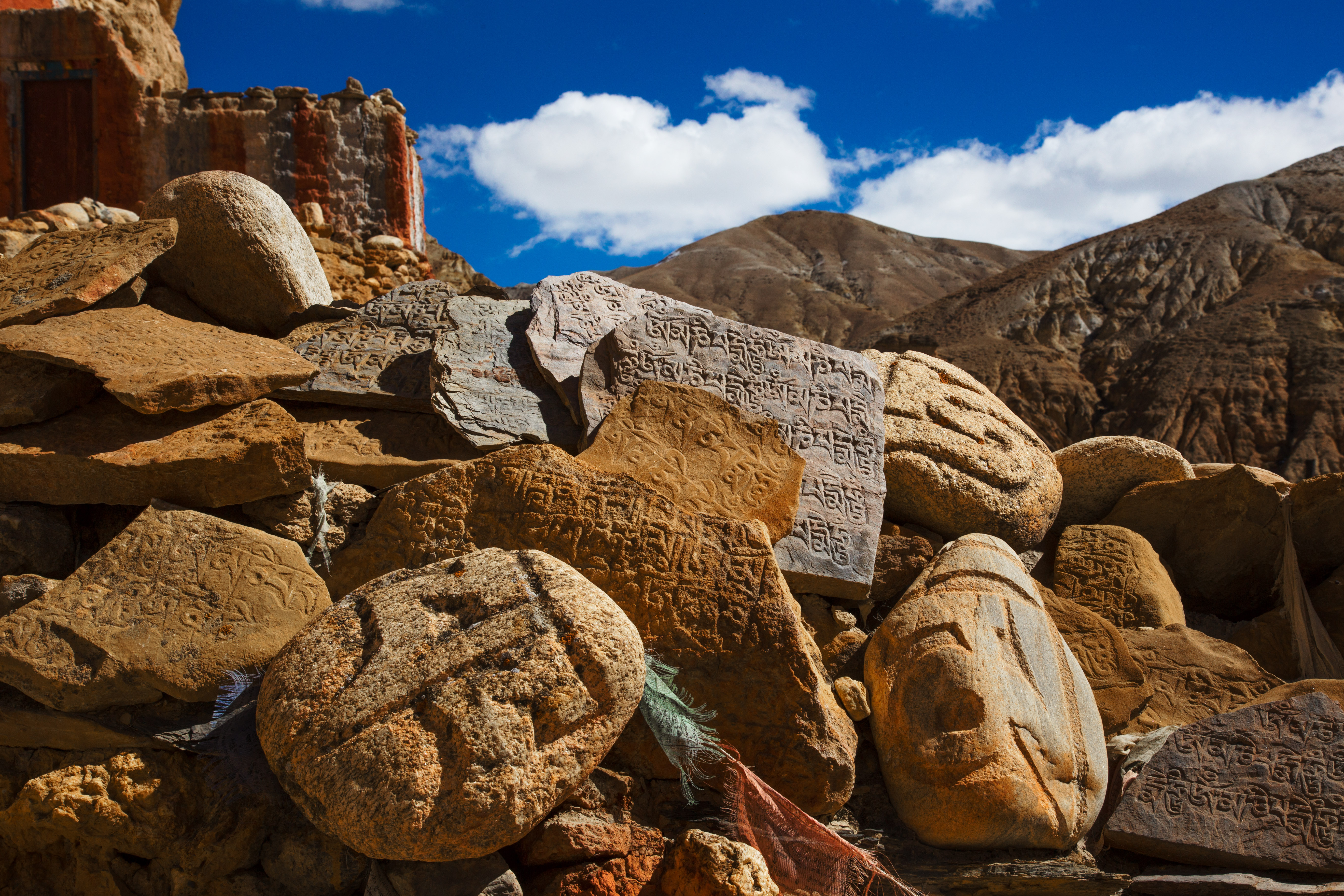 Mani stones are stone plates, rocks and/or pebbles, inscribed with the six syllabled mantra of Avalokiteshvara (Om mani padme hum, hence the name "Mani stone"), as a form of prayer in Tibetan Buddhism. Mani stones are intentionally placed along the roadsides and rivers or placed together to form mounds or cairns or sometimes long walls, as an offering to spirits of place. (cc) Wikipedia